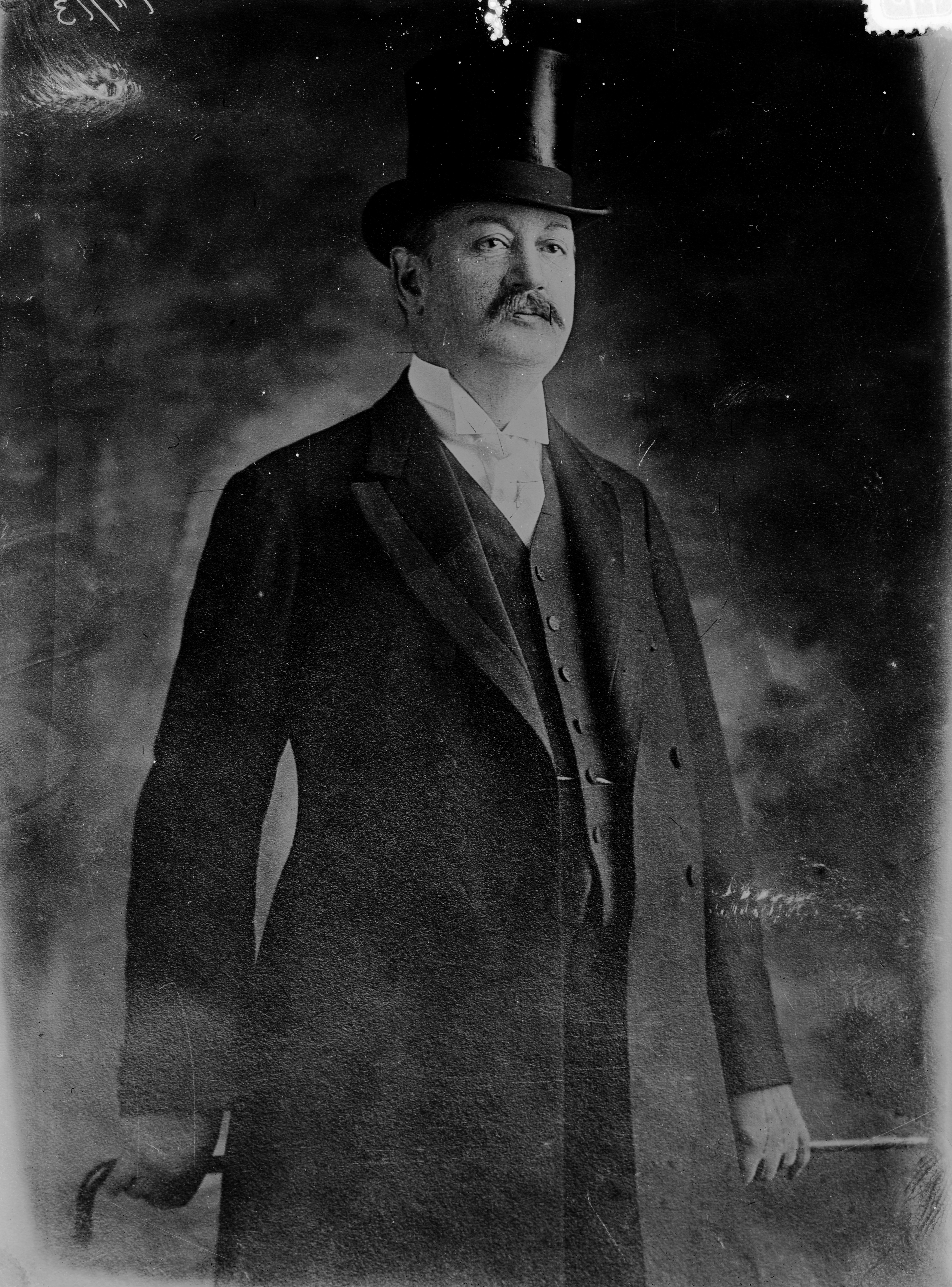 Photo shows George H. Kendall, president of the New York Bank Note Company.